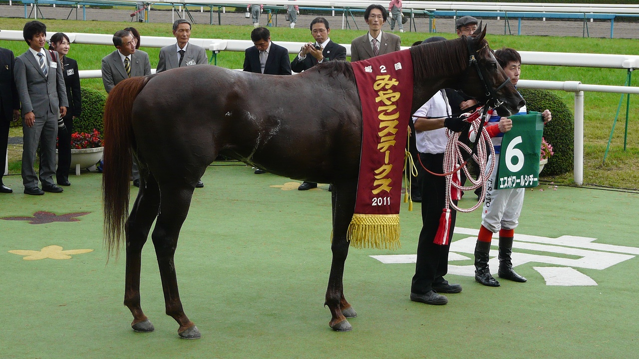 Espoir-City20111106